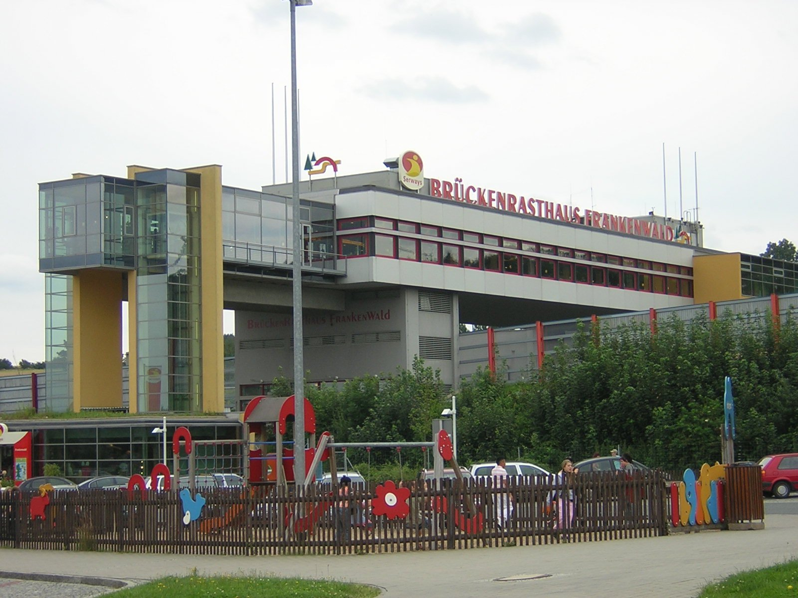 Bridge restaurant "Frankenwald"